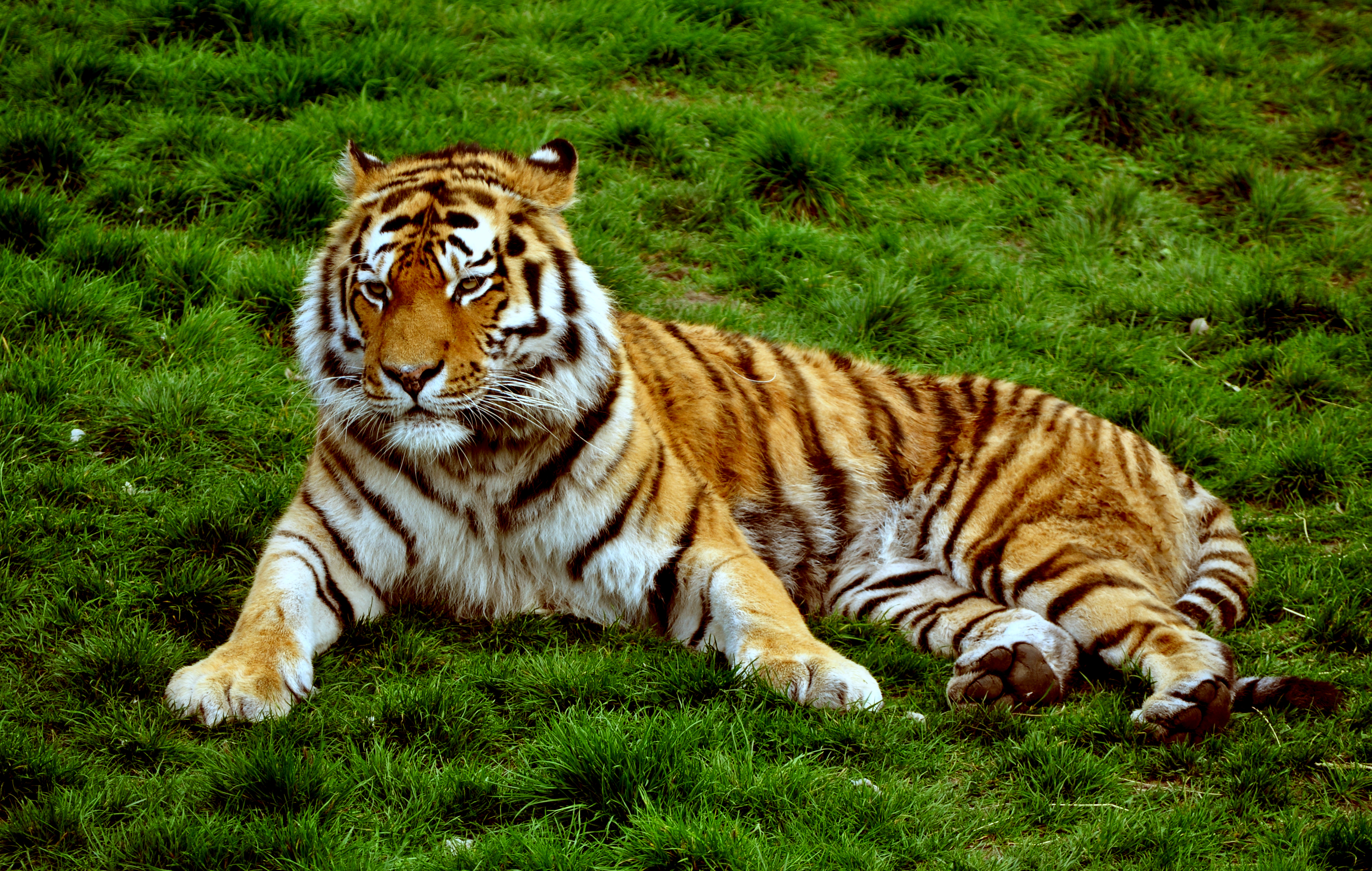 taken with a Nikon D5000.